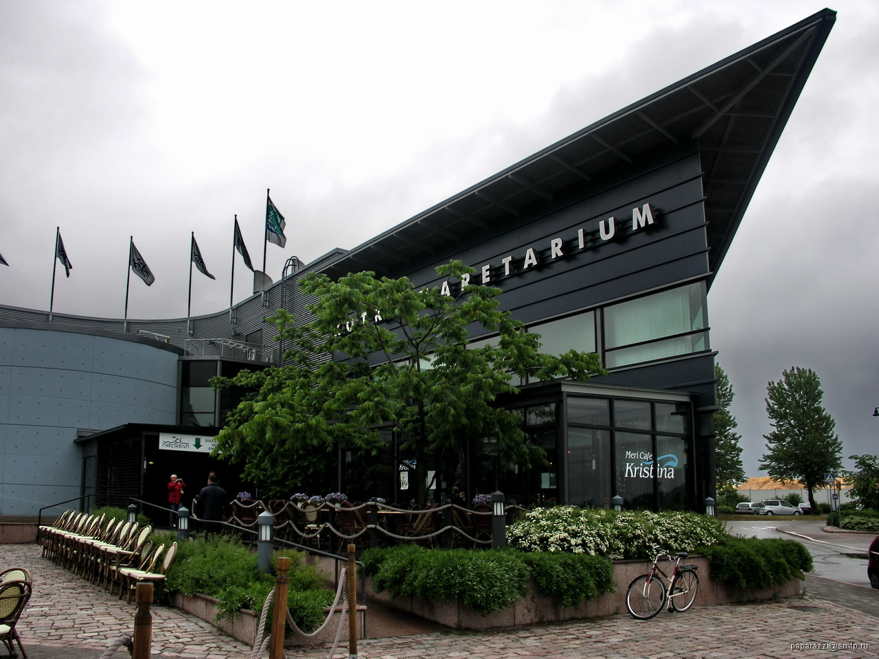 Kotka